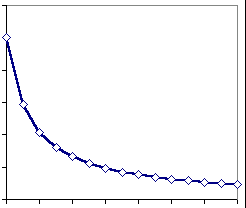 Plot of Zipf's law.